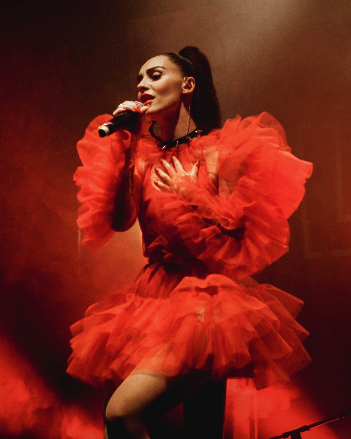 ILIRA performing "Fading" at Fourabend 12 May 13th, 2019 in Berlin, Germany